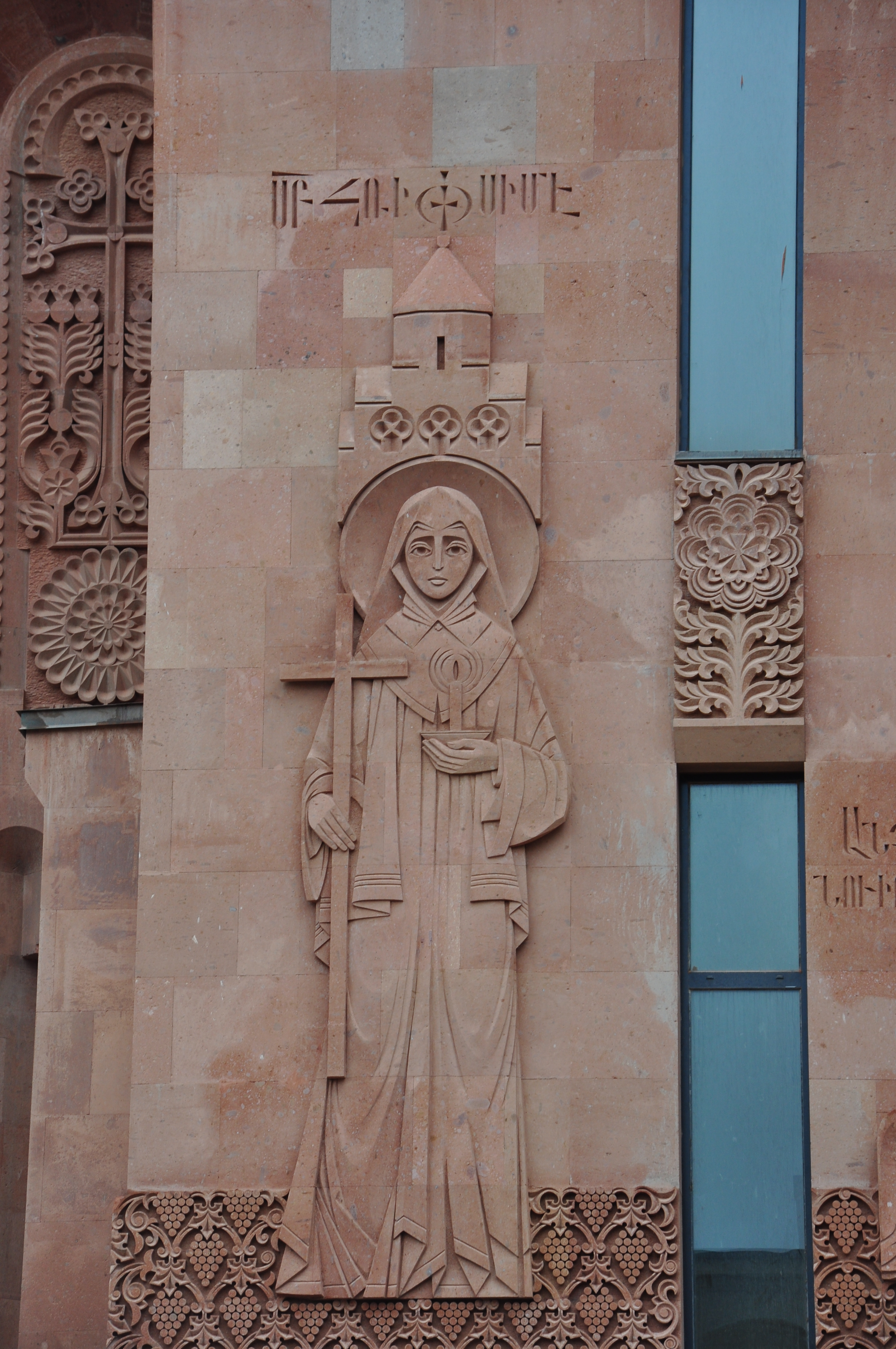 Chapel of the Armenian Apostolic Church «Surb Khach» (Holy Cross), Russia, Moscow